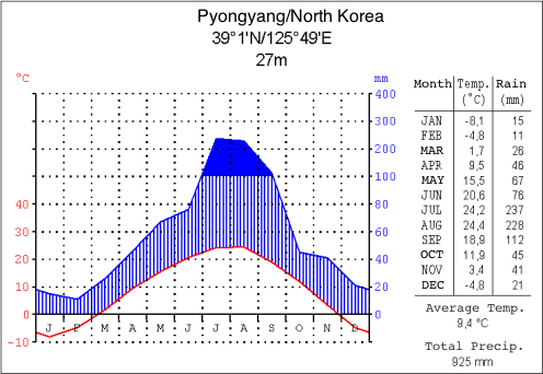 Climate diagram of P'yŏngyang.